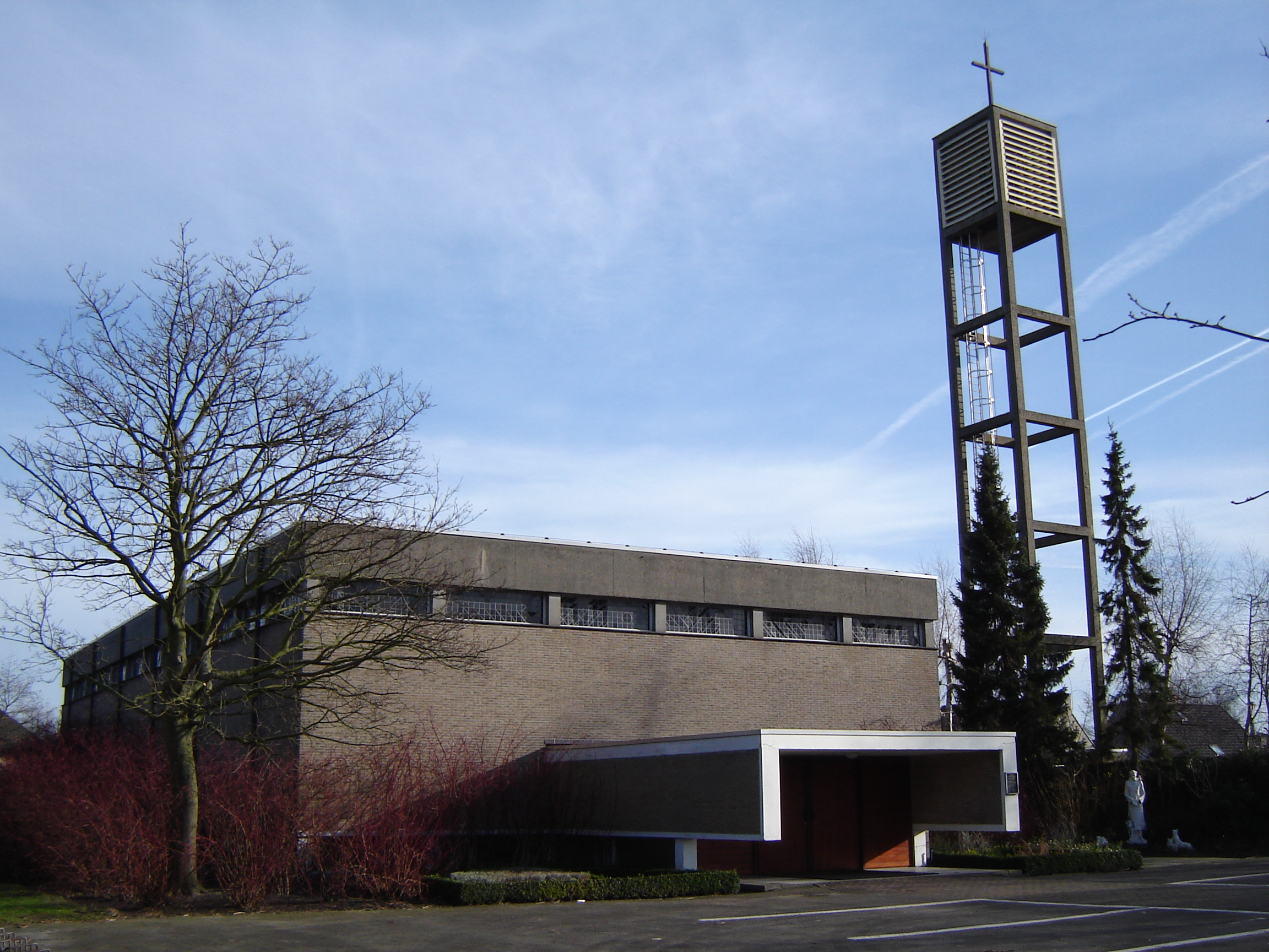 Church of Saint Francis of Assisi in Sint-Kruis. Sint-Kruis, Brugge, West Flanders, Belgium.